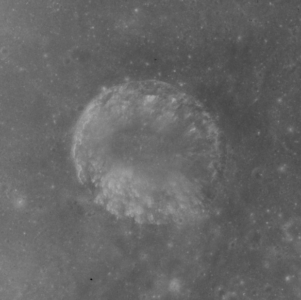 Greaves, on the moon. North at top. From altitude 114 km, and high sun angle of 70 degrees.